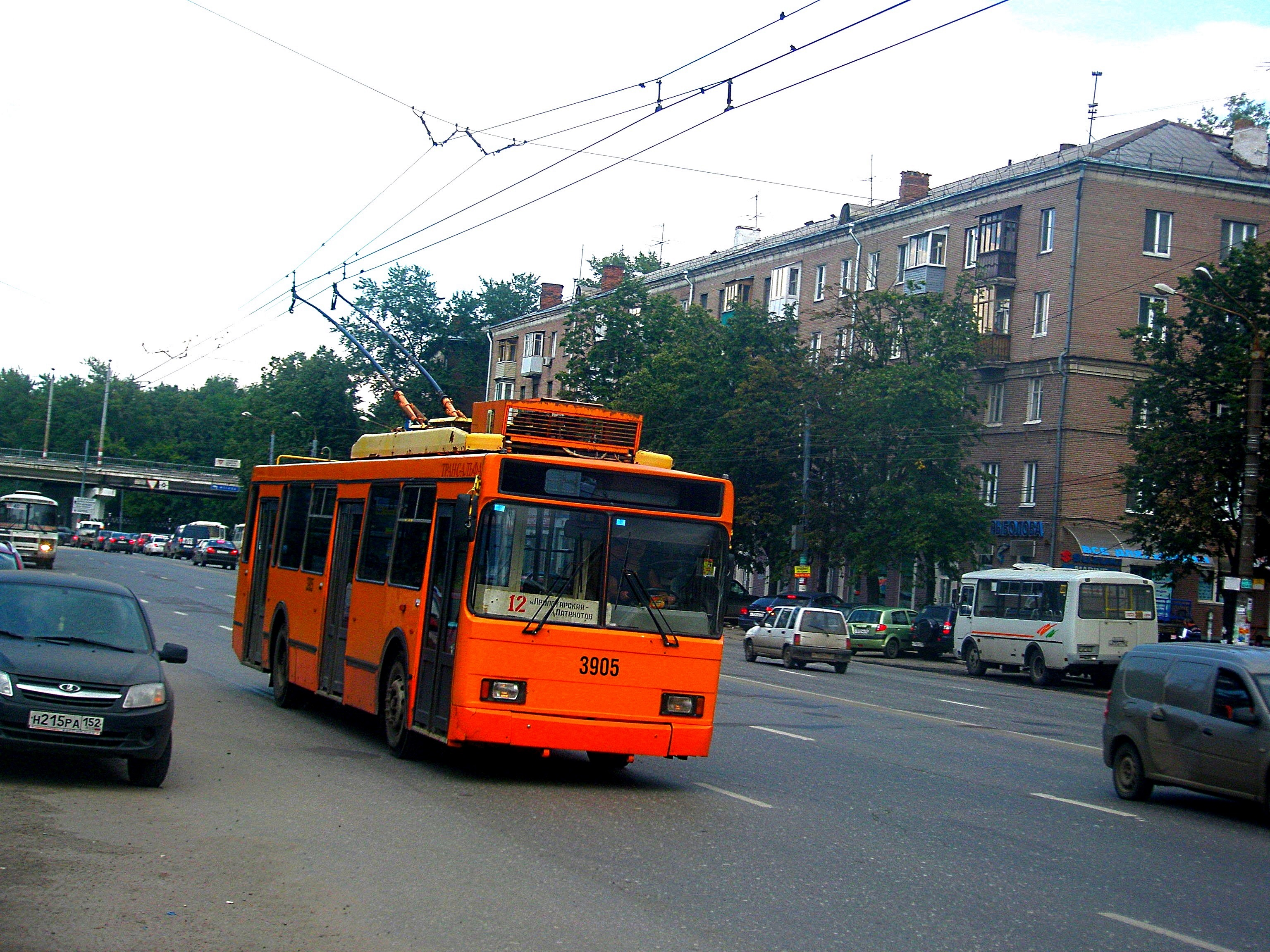 Trolleybus VMZ-52981 number 3905 in Nizhny Novgorod at "Proletarskaya metro stop" stop